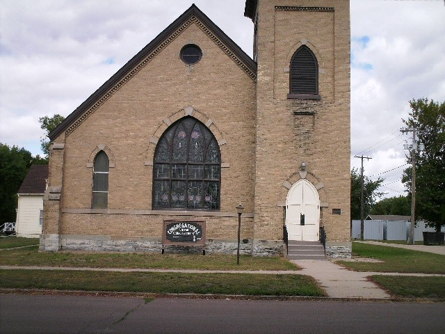 The First Congregational Church in Milbank, South Dakota, viewed from across East Third Avenue